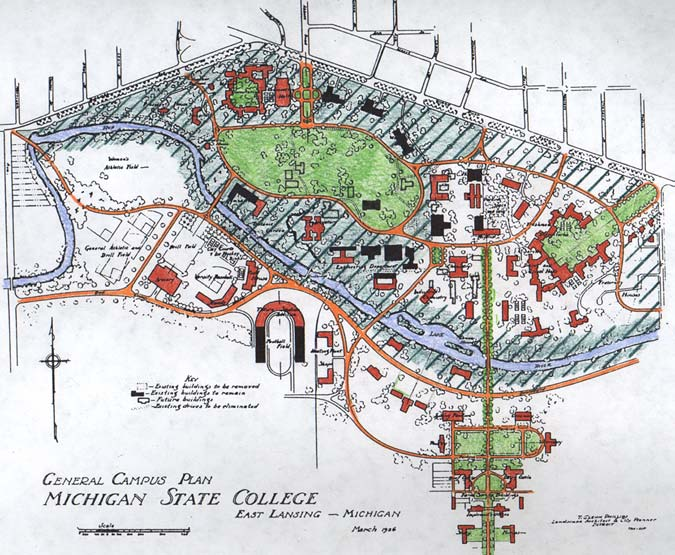 T. Glenn Phillips' plan for Michigan State College's campus in 1926